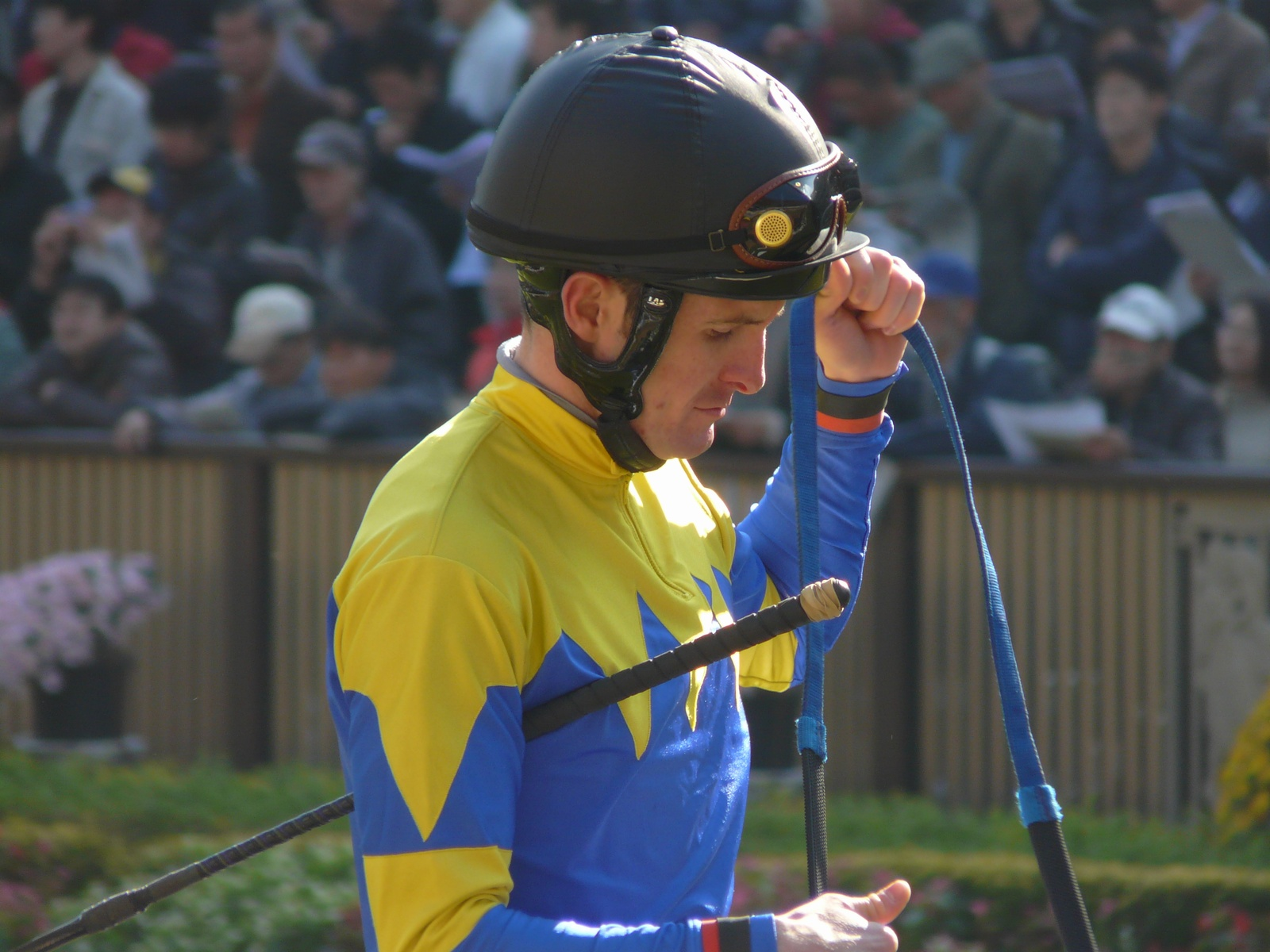 Colm-O'Donoghue20101128